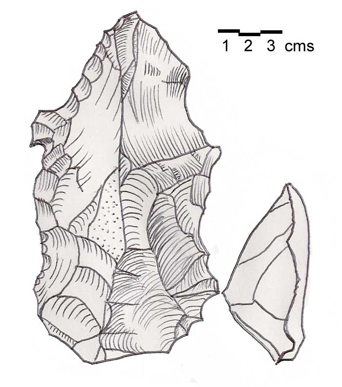 Heavy Neolithic flint tool of the Qaraoun culture - Massive nosed scraper on a flake with irregular jagged edges, notches and "noses". Found at Mtaileb I. Drawing by Paul Bedson. Public domain.